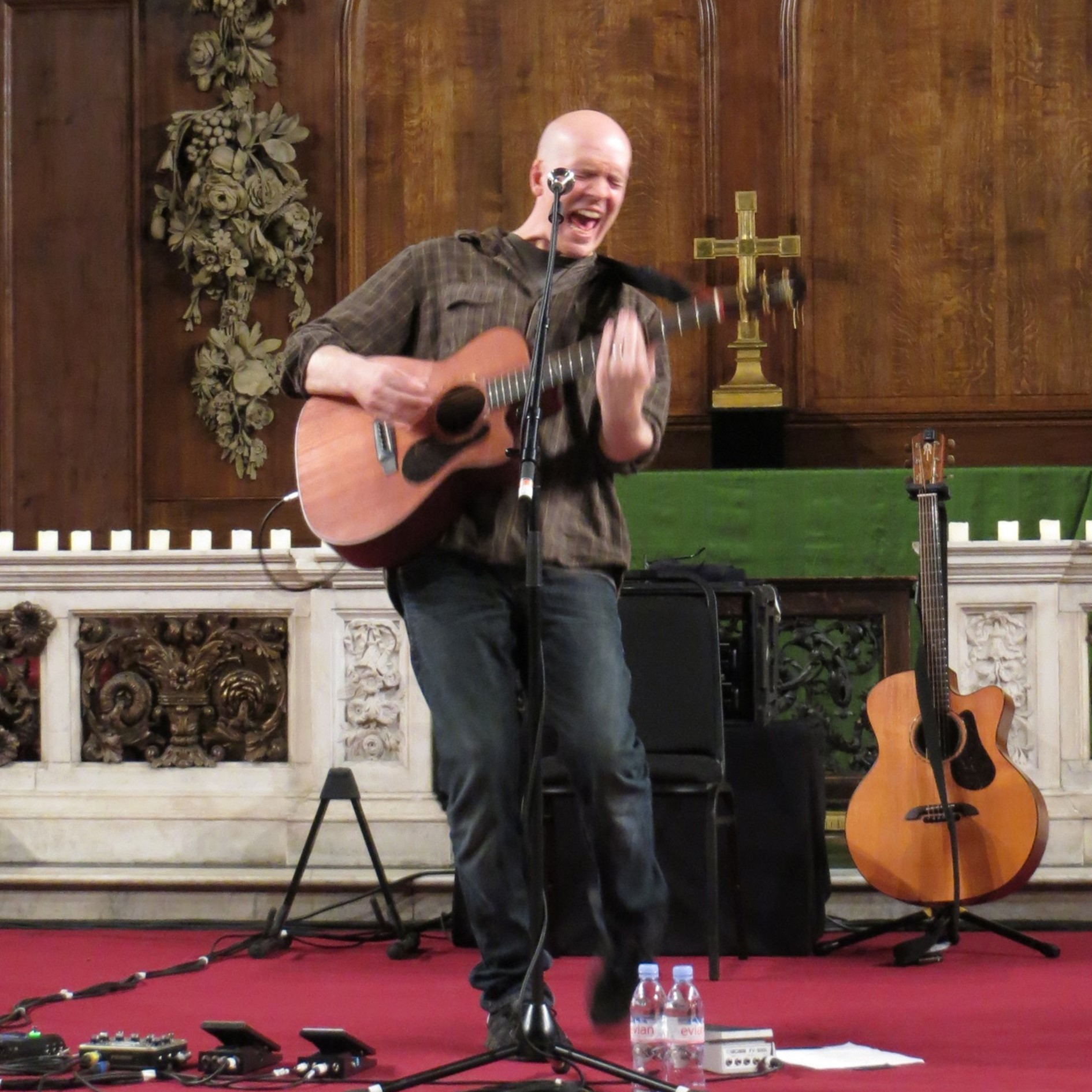 Devin Townsend during his UK acoustic tour live at St James Church London 09. Oct. 2015